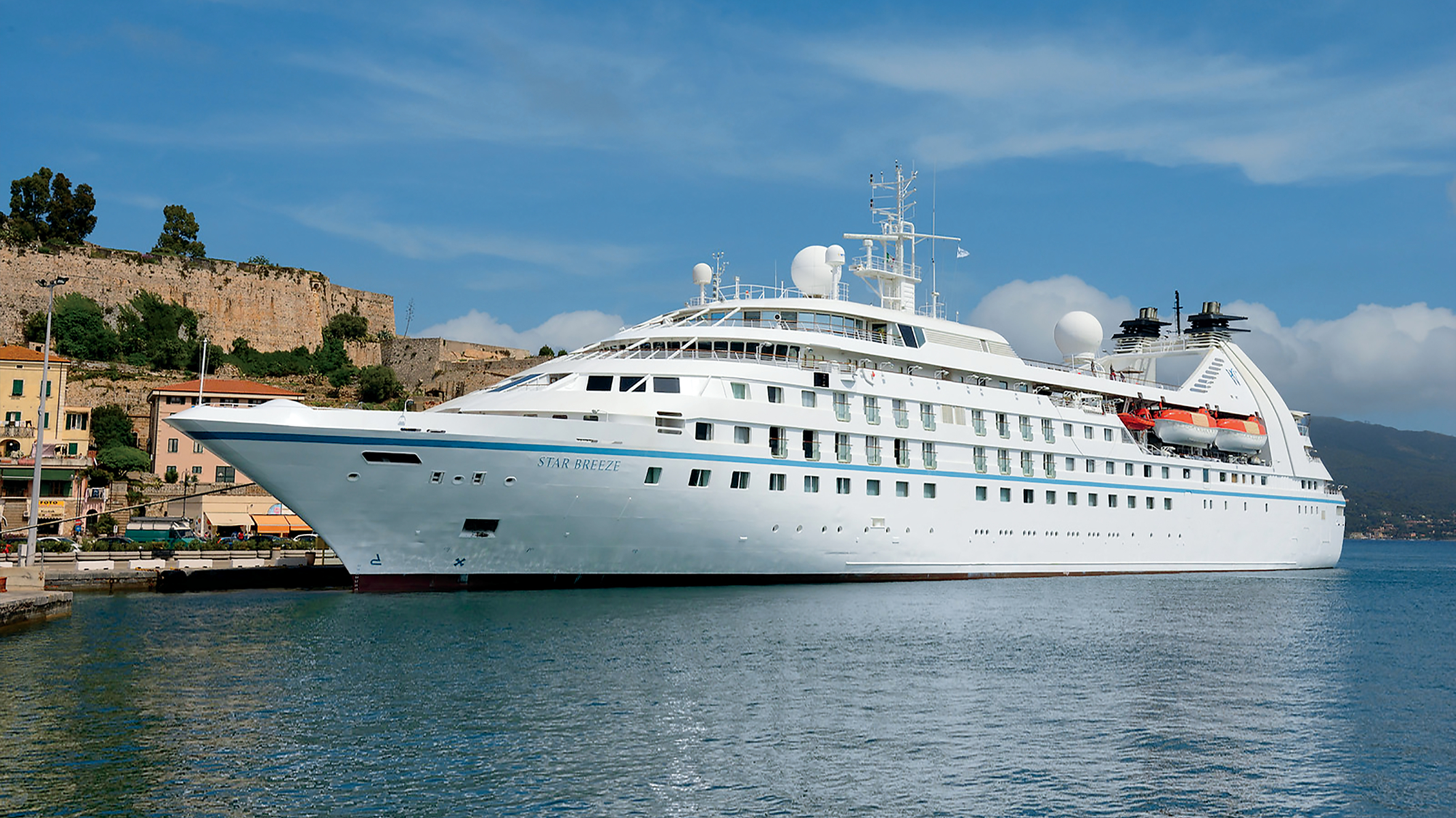 Star Breeze Luxury Cruise Ship